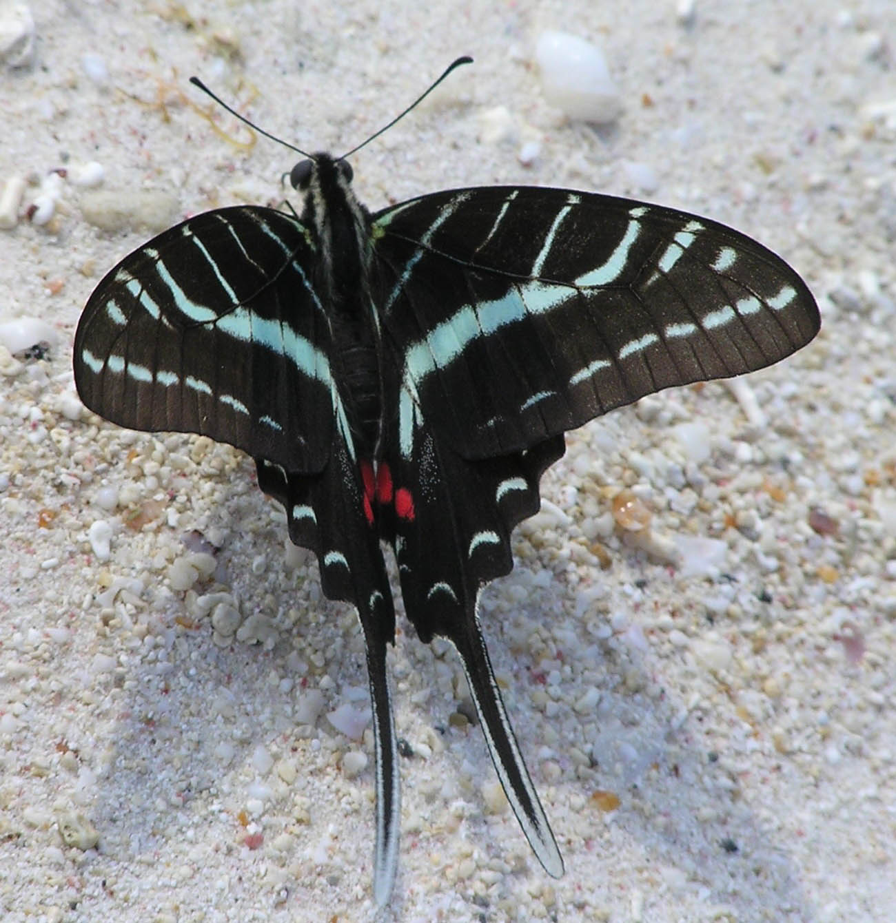 Protographium philolaus - Location: Mexico: E Yucatán, near Tulum